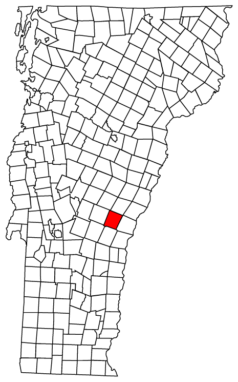 Description: Map of Vermont towns with Pomfret highlighted Source: Map created by Jared C. Benedict on 26 March 2004. Copyright: © Jared C. Benedict.